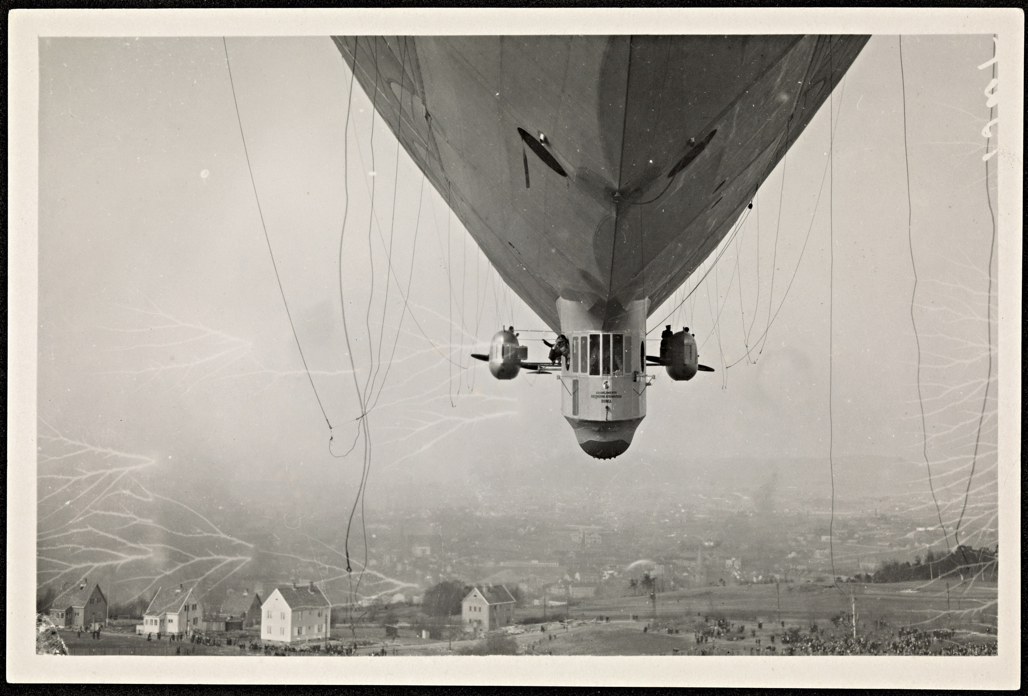 Tittel / Title: Luftskipet "Norge" over Ekeberg Beskrivelse / Description: Gelatin papirpositiv. Dato / Date: 14. april 1926 Fotograf / Photographer: ukjent / unknown Sted / Place: Oslo, Ekeberg Eier / Owner Institution: Nasjonalbiblioteket / National Library of Norway Lenke / Link: Bildesignatur / Image Number: blds_04124